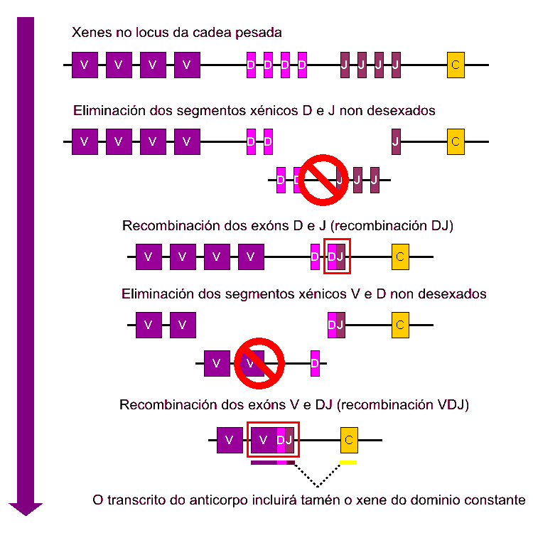 Simplistic overview of V(D)J recombination (spanish)